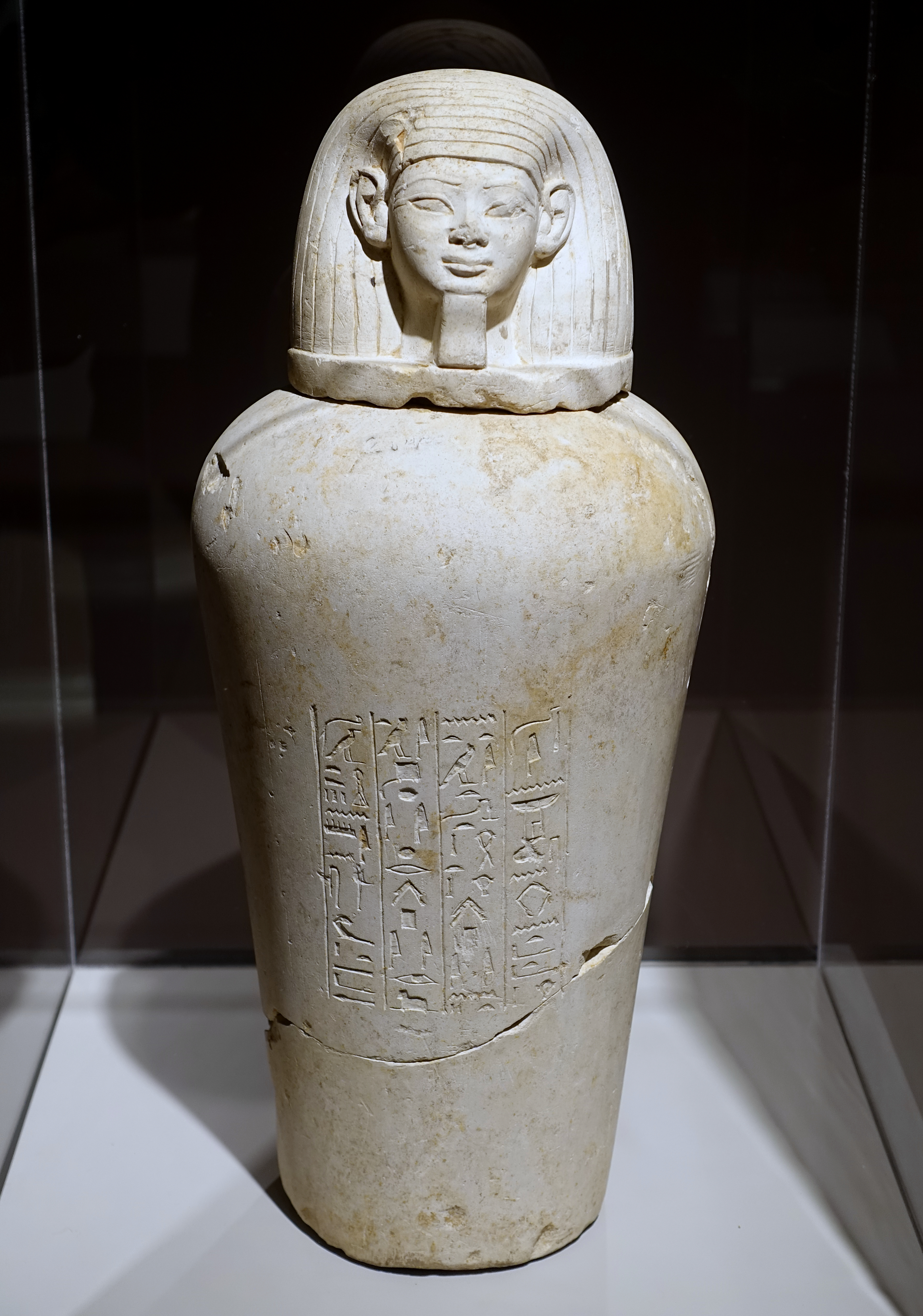 Exhibit in the Harvard Semitic Museum, Harvard University - Cambridge, Massachusetts, USA. This work is old enough so that it is in the public domain.